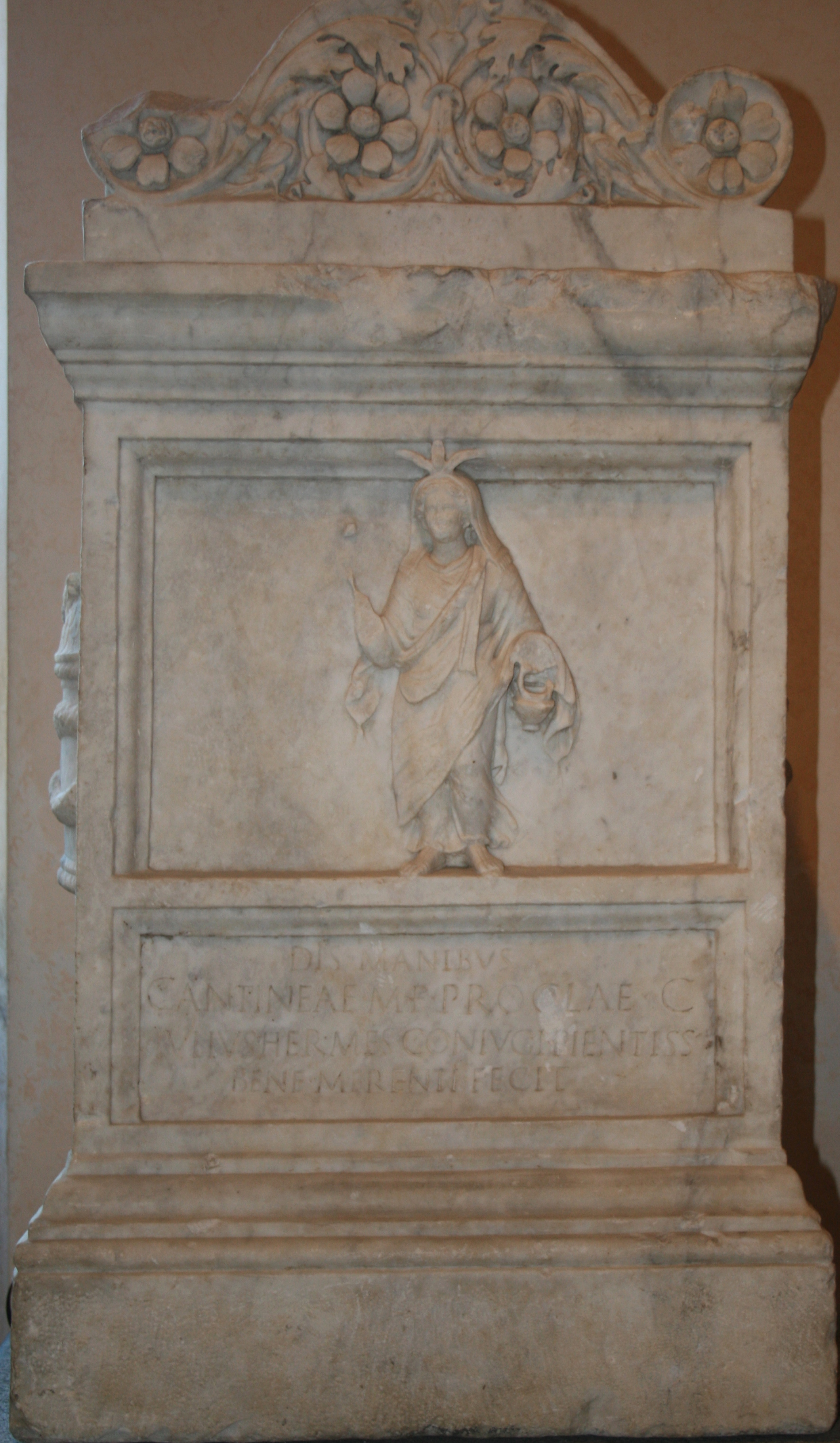 Sepulchral monument for Cantinea Procla, priestess of Isis